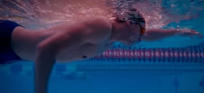 Free or Crowd swimming style